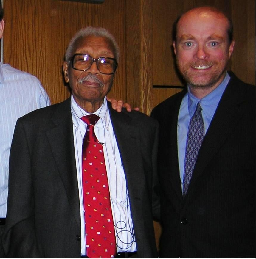 Civil rights pioneer Judge Robert L. Carter and Fordham Law School Dean William Treanor, on the day FLS awarded Carter an honorary juris doctor in recognition of his contributions to the country.